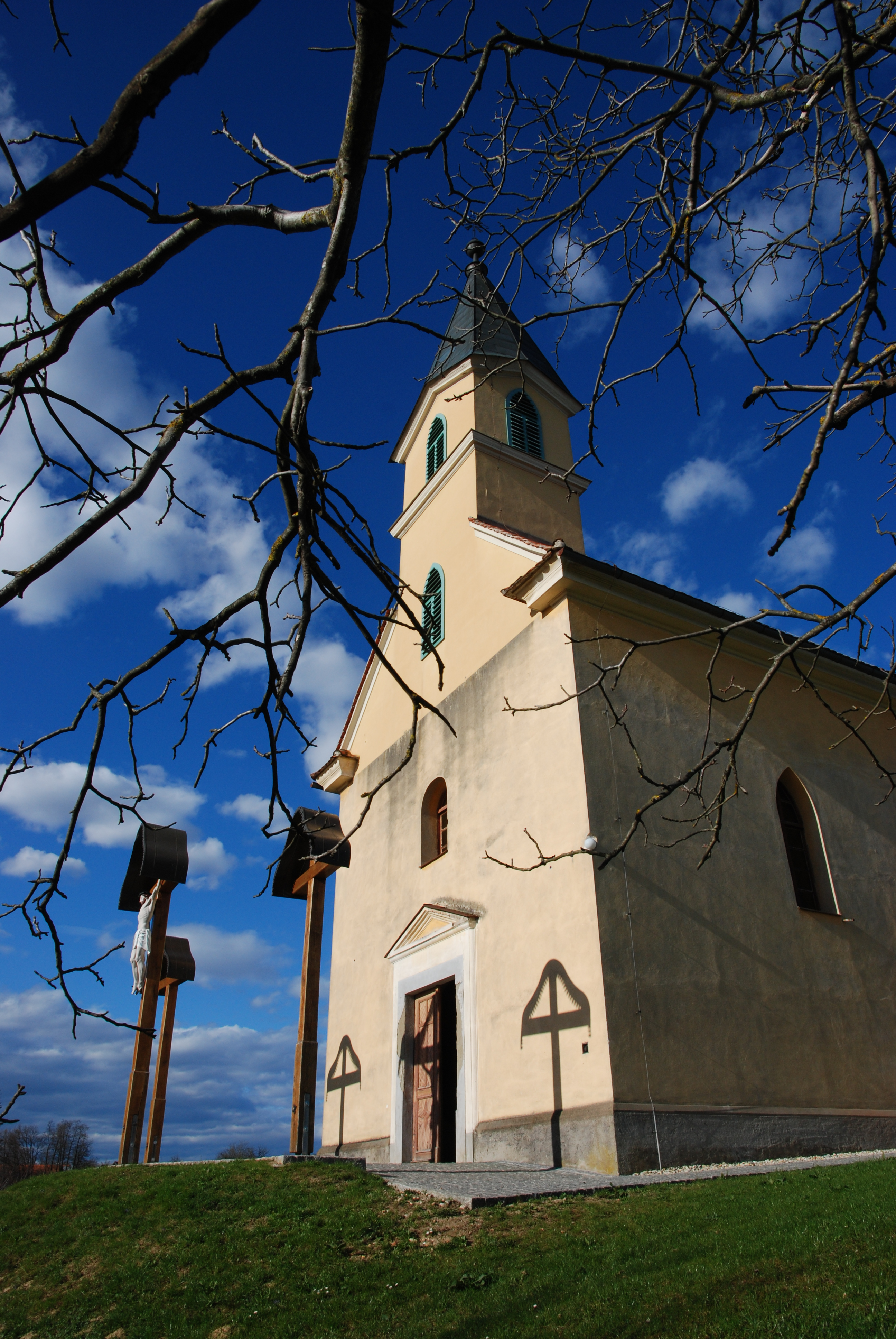 Kalvarienberg St. Peter a. O.